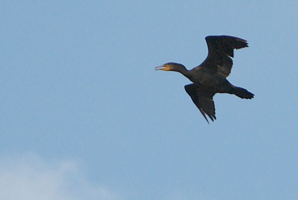 Name: Phalacrocorax carbo. Family: Phalacrocoracidae. Location: Naturerlebnisraum Rieselfelder, Münster, NRW, Germany